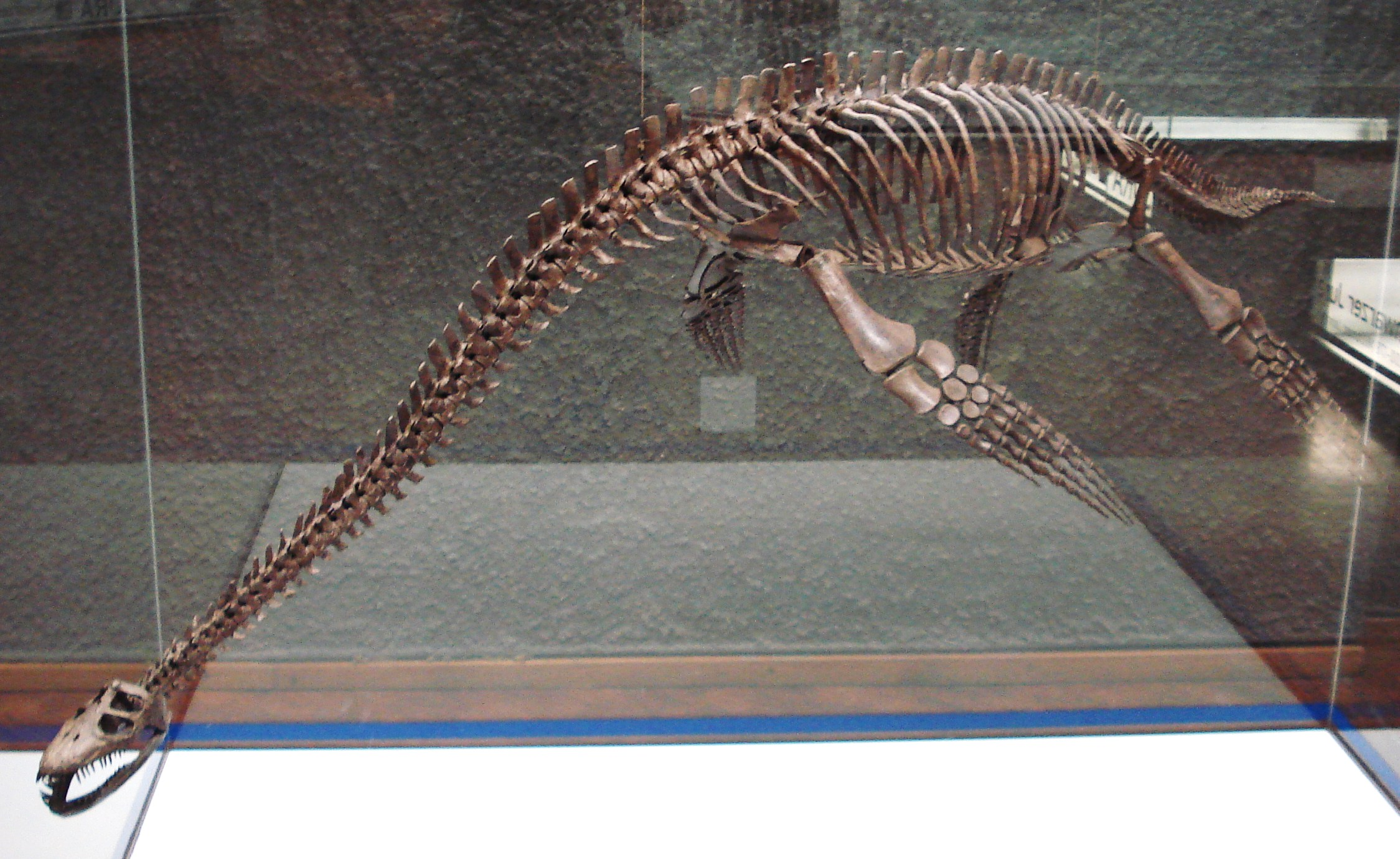 fossil of Plesiopterys